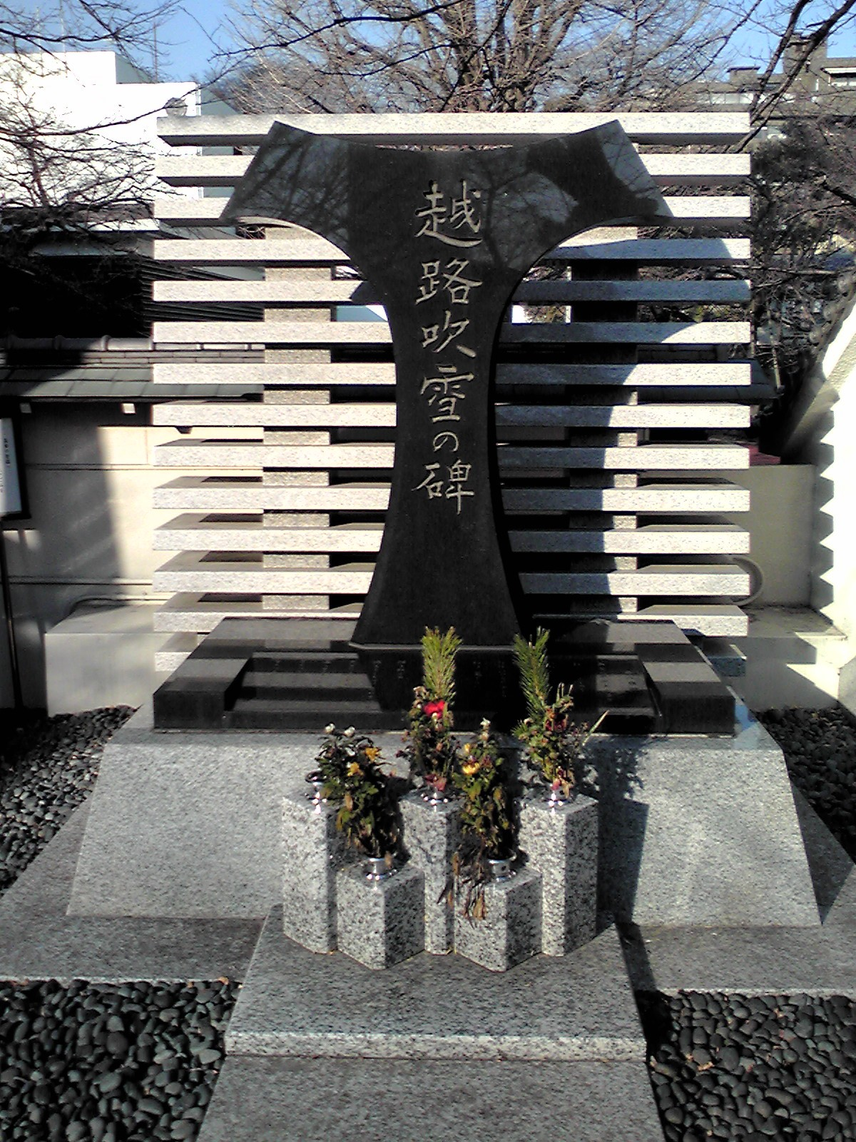 Koshiji Fubuki no hi